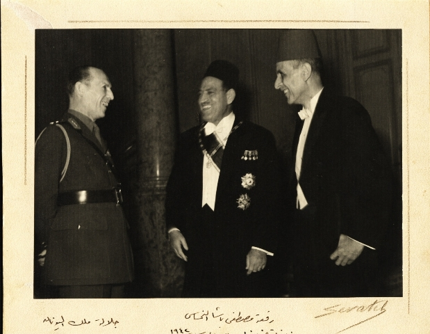 Prof. Naguib Pashsa Mahfouz with King George II of Greece and Prime Minister Mostafa Pasha El Nahas in 1942